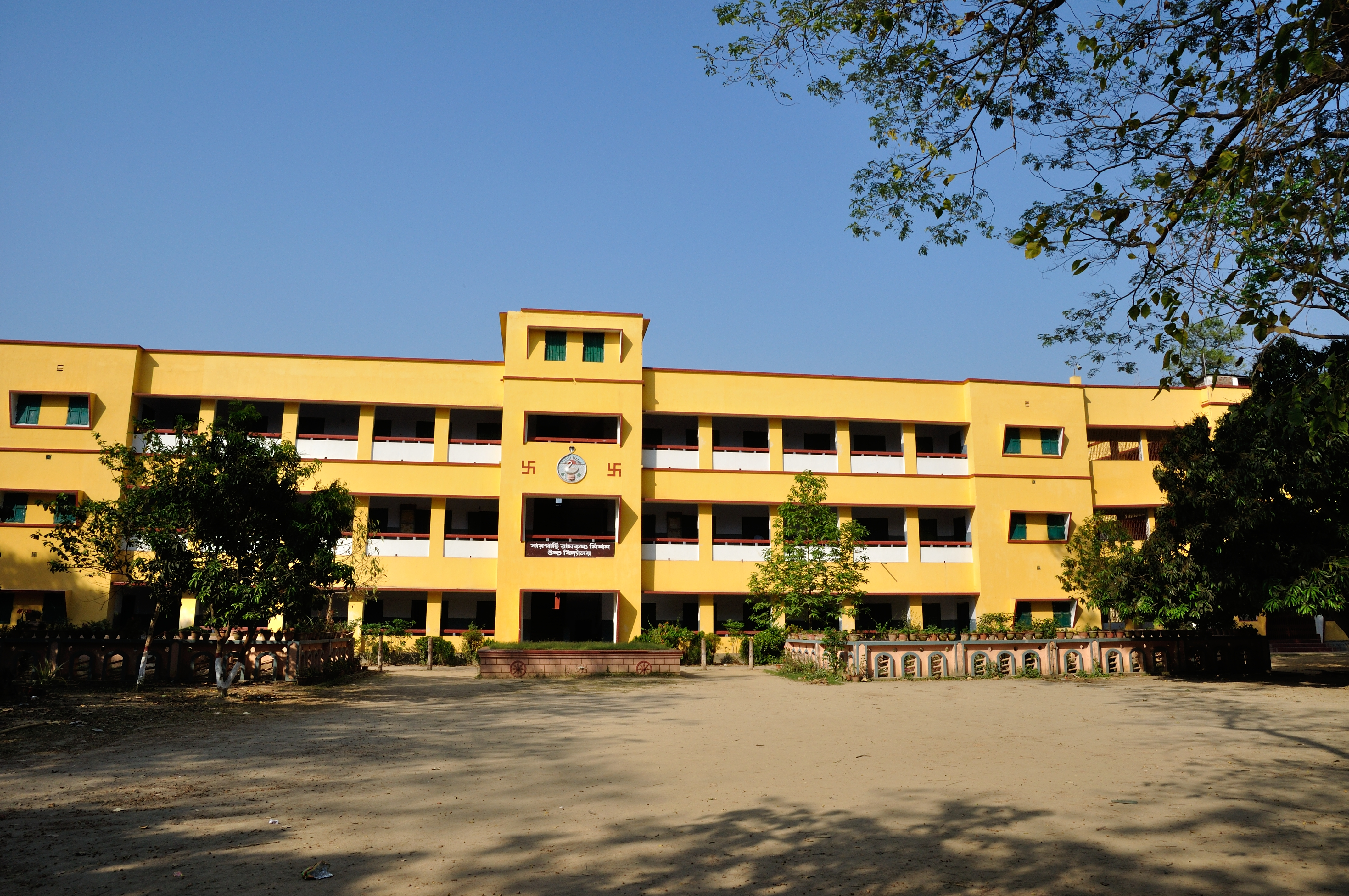 Photographed in West Bengal.